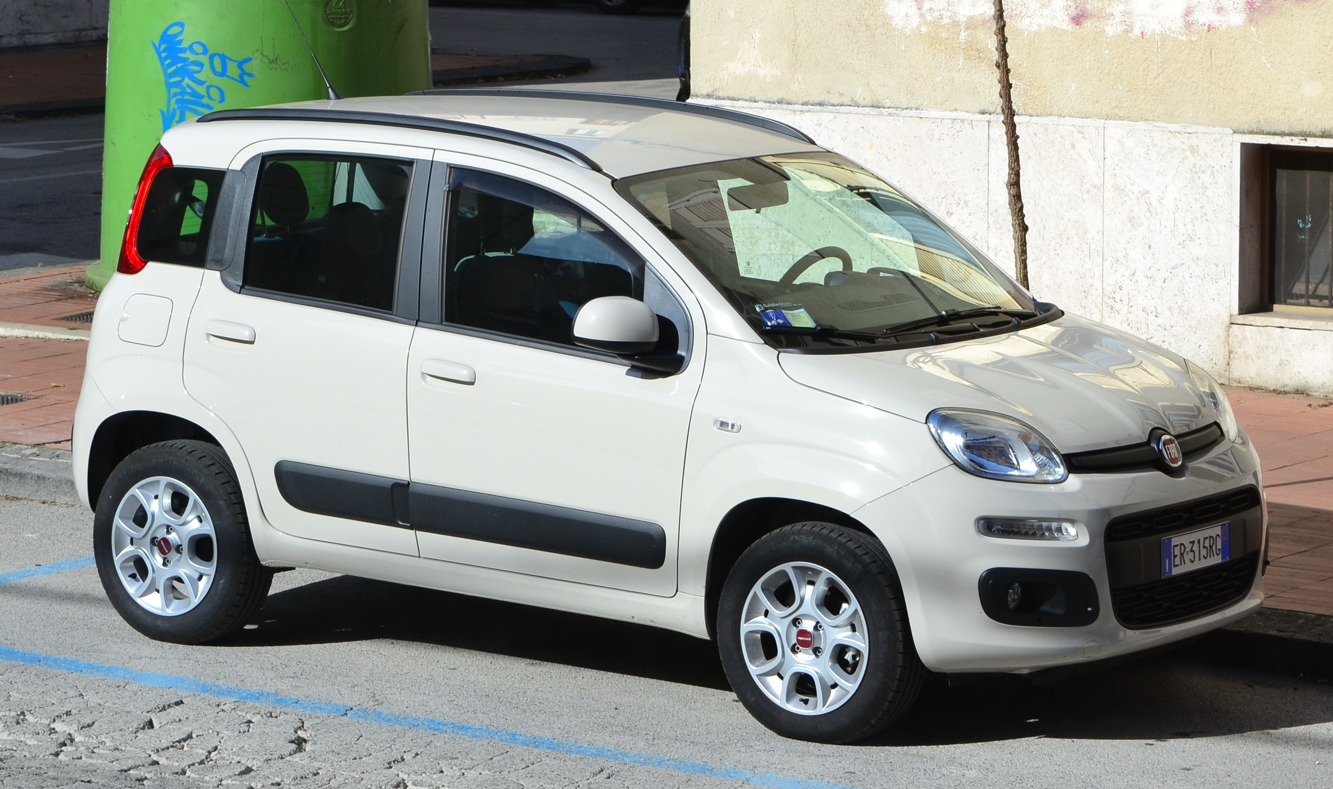 Fiat Panda III 0.9T TwinAir Natural Power